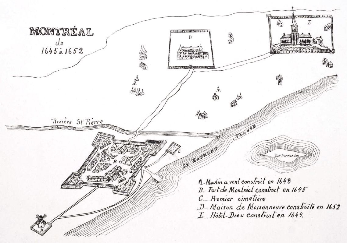 « Montreal of 1645 to 1652. - The first birds-eye view of the future city ever attempted. The original is a much prized relic within the archives at the City Hall and was loaned for this work. » Image from the book : Montreal, Old and New – Entertaining, Convincing, Fascinating – A Unique Guide for the Managing Editor